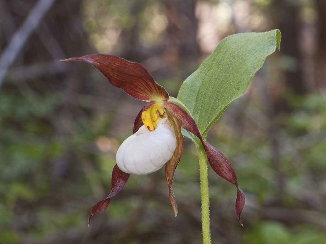 Cypripedium montanum — Mountain Lady's Slipper, Large Lady's Slipper (orchid species). In the Butterfly Valley Botanical Area, Sierra Nevada, Plumas County, California. On June 18.